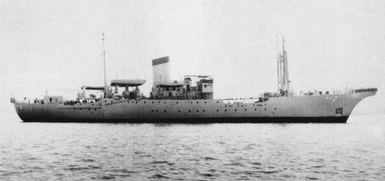 The U.S. Navy cable repair ship USS Neptune (ARC-2), circa 1973.